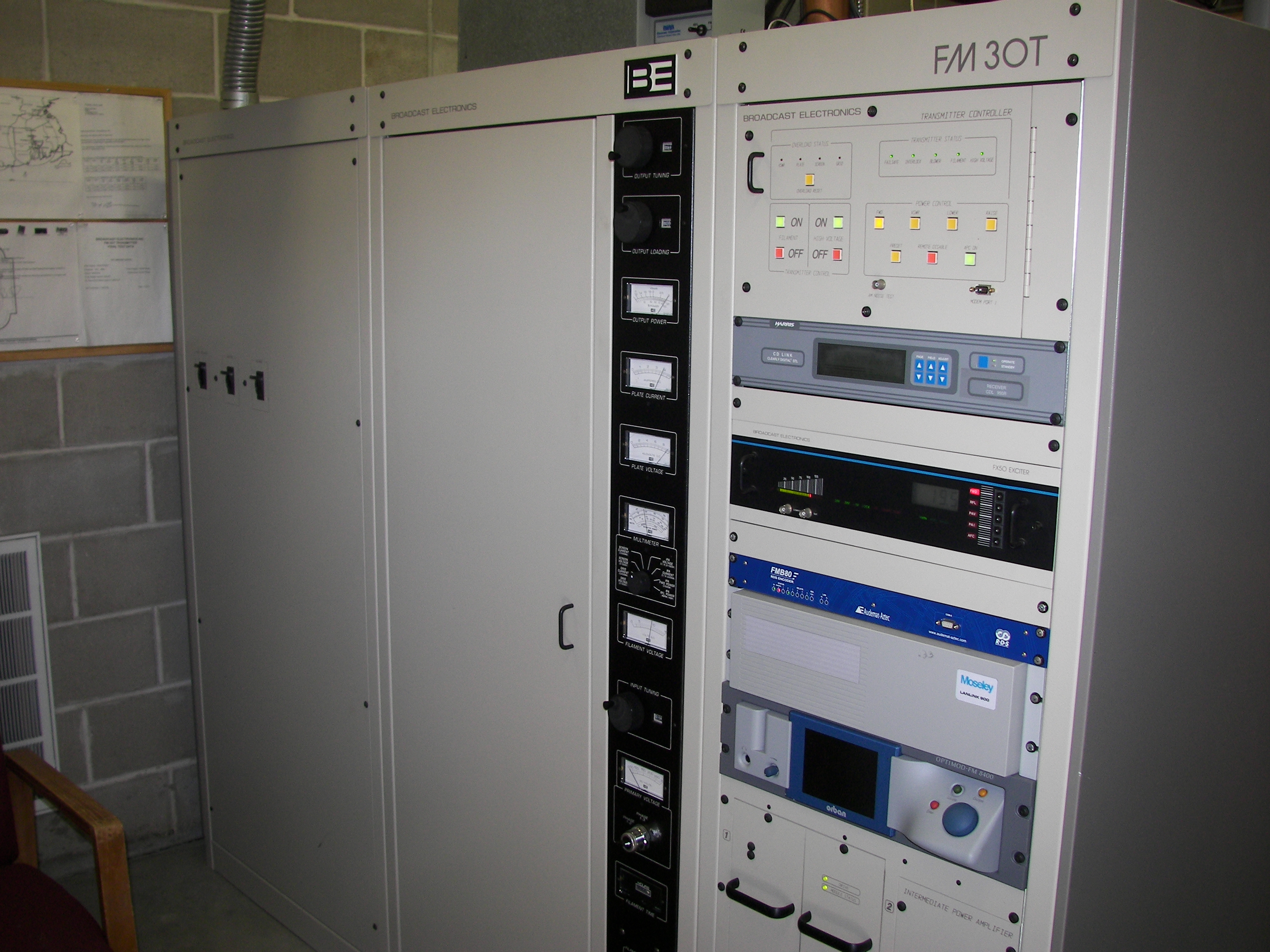 Broadcast Electronics FM tube model FM-30T transmitter.